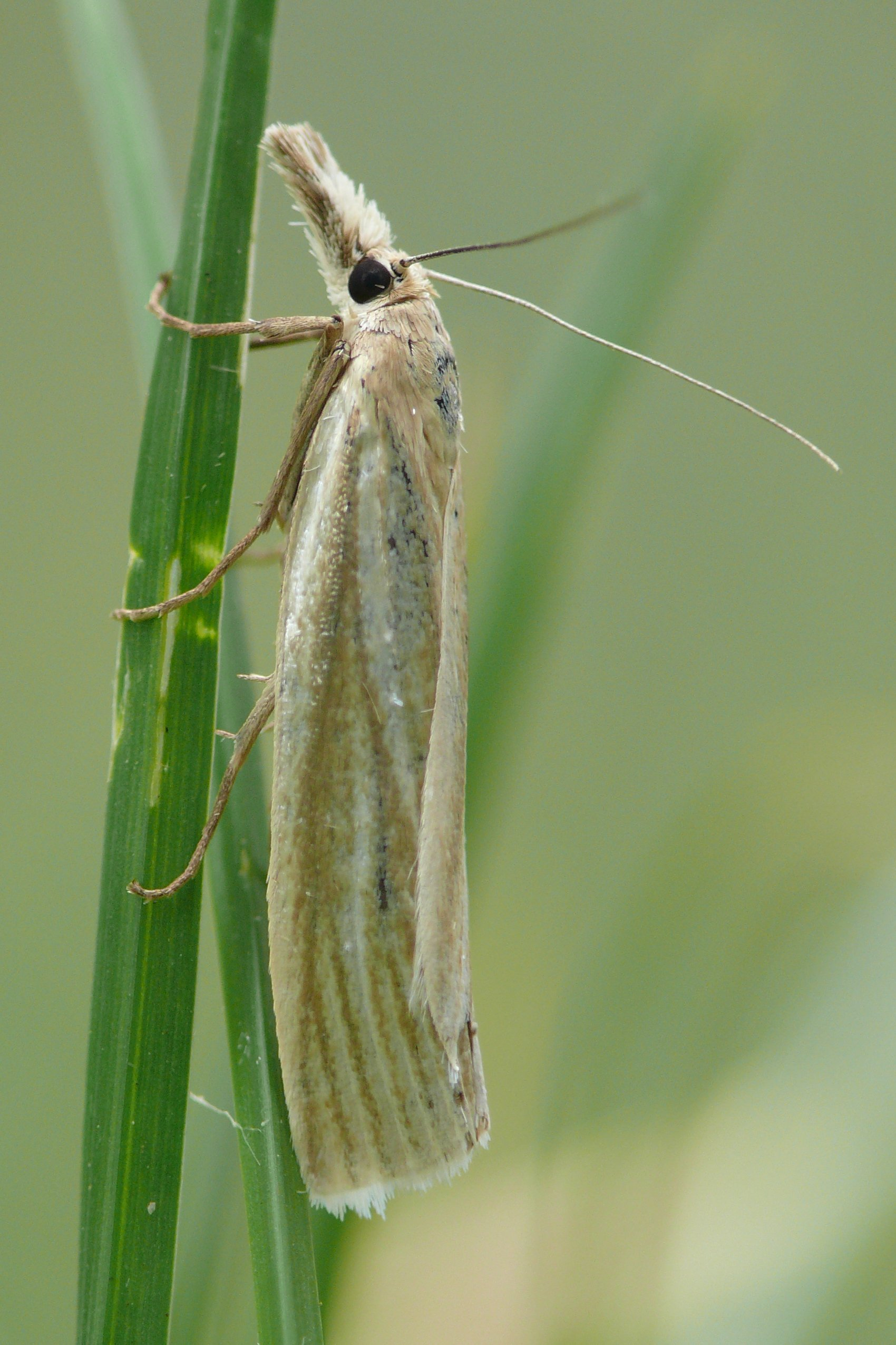 Locality: Markt Schwabener Moos, Bavaria, Germany